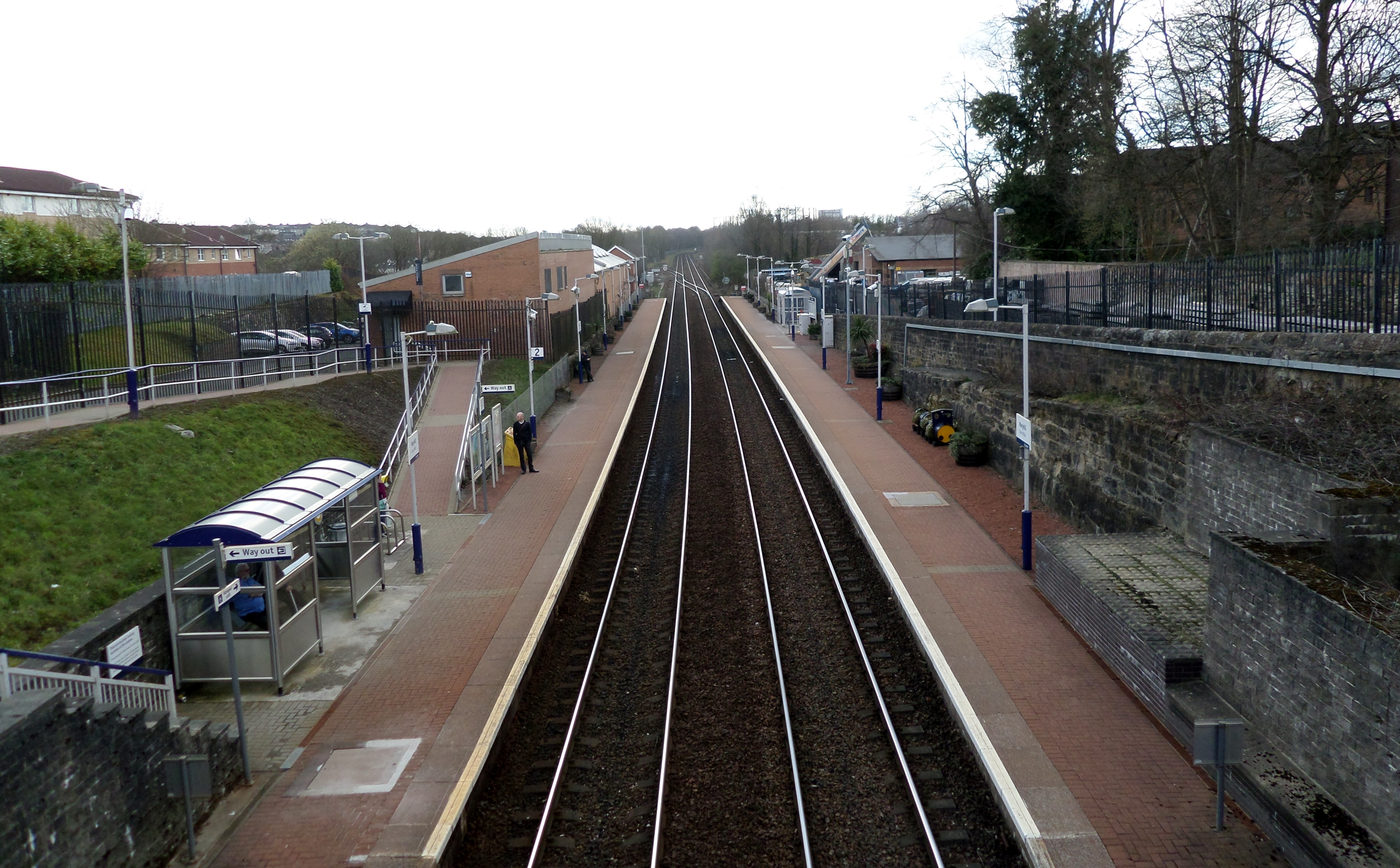 Maryhill railway station as seen from the over bridge looking west. Maryhill Line. Glasgow, Scotland.